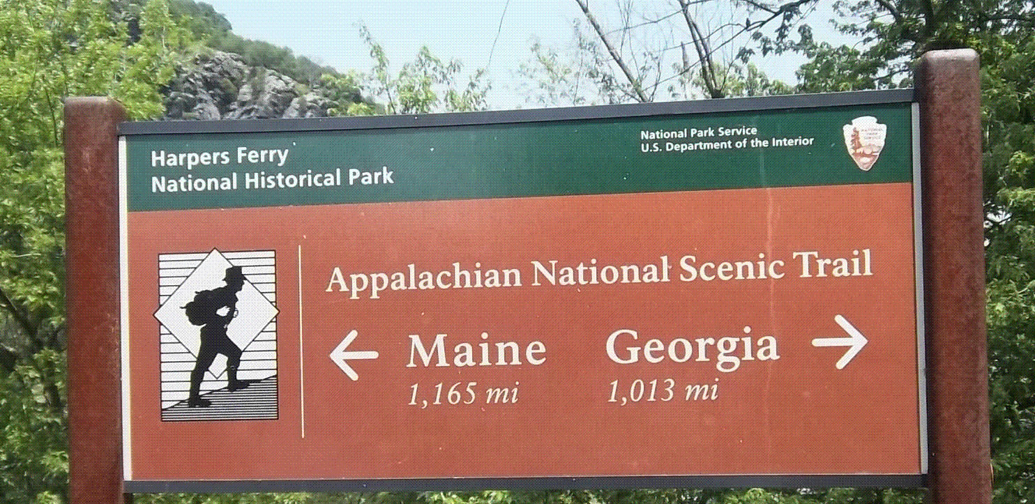 The Appalachian Trail sign at Harpers Ferry, West Virginia, just above the point where the Shenandoah and Potomac Rivers meet.